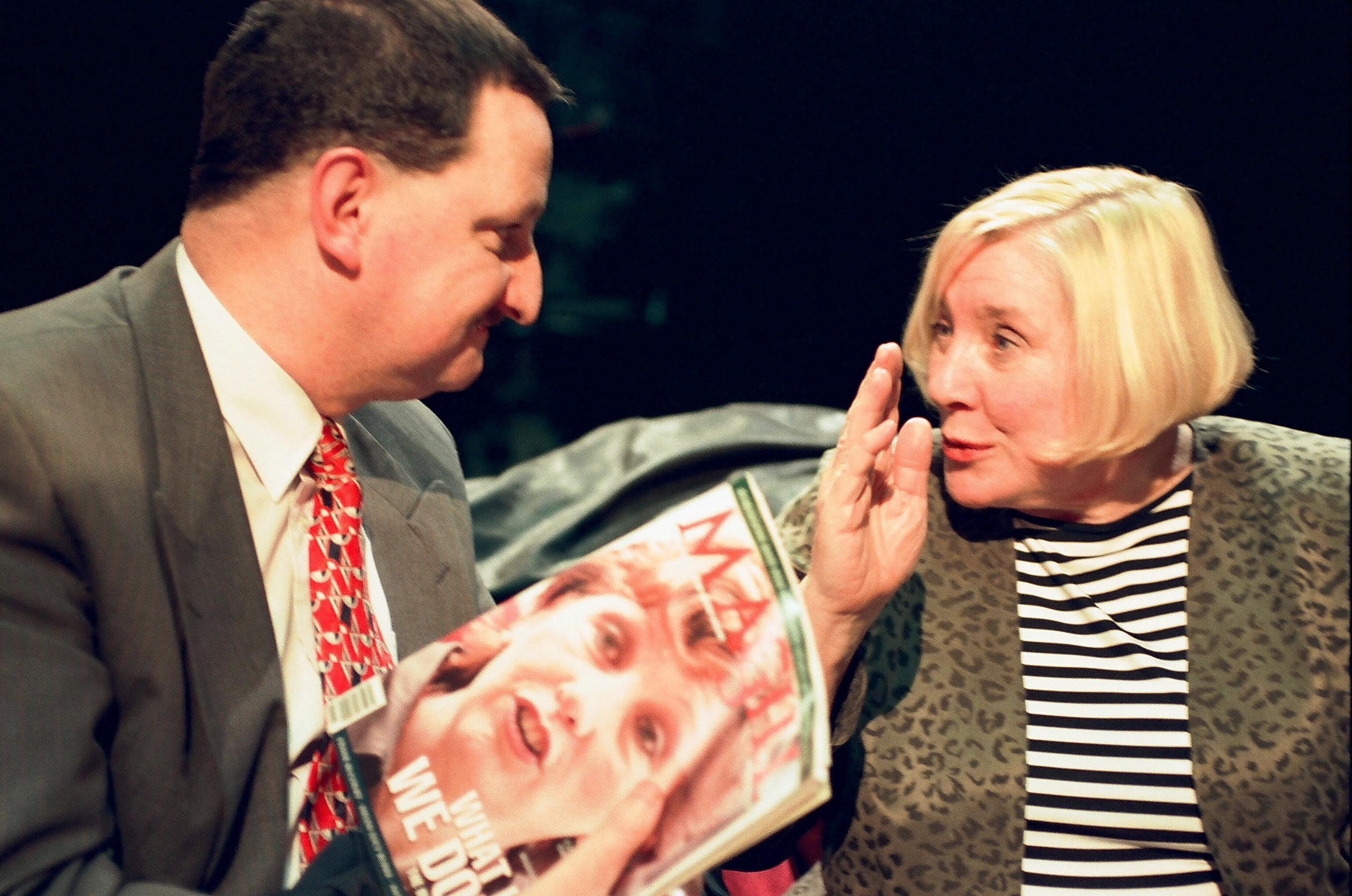 Professor Gerard Casey and Fay Weldon appearing on After Dark in 1997